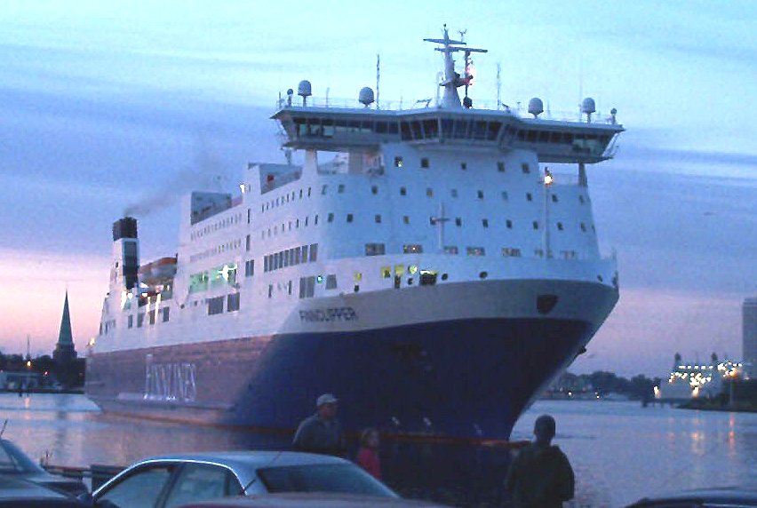 A cropped and lightened version of the file Image:Travemuende-Faehrhafen 05.jpg IMO Number: 9137997 MMSI Number: 266192000 Callsign: SFZO Length: 188 m Beam: 30 m